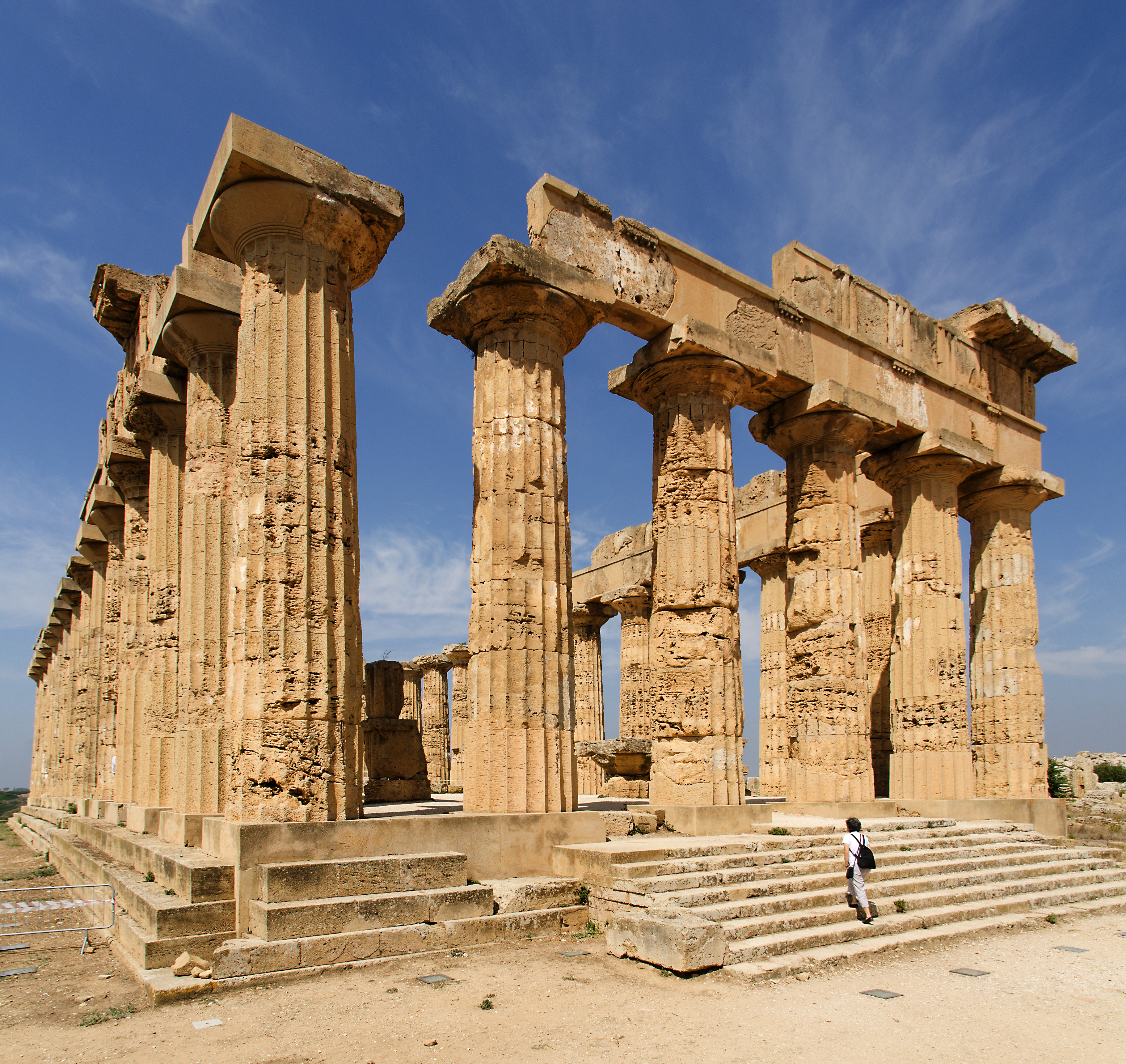 Selinunte, Sicily, Temple E. Stitched from 2 images.